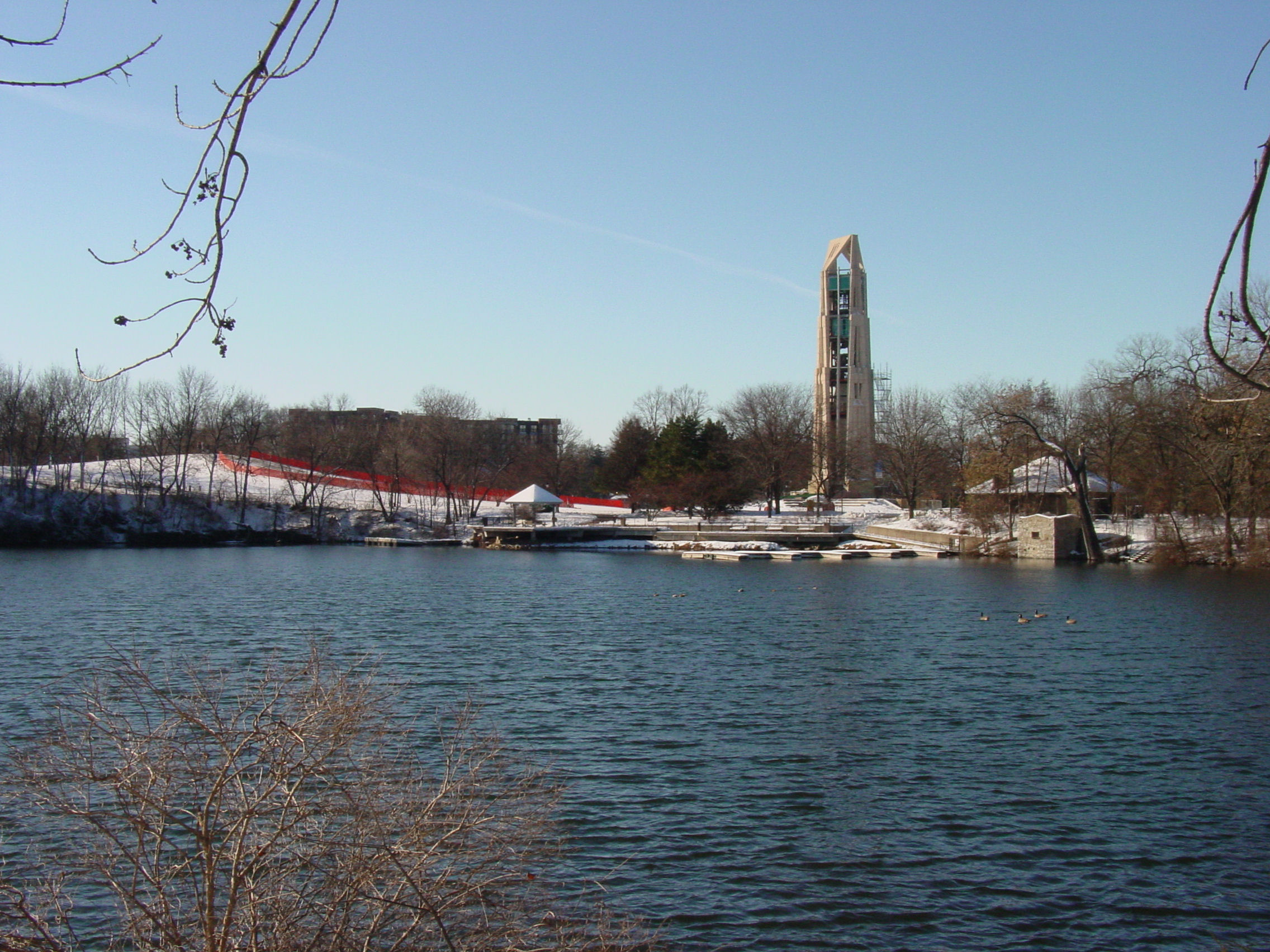 View of the Riverwalk Quarry in Naperville, Illinois, USA from Eagle Street, near Jackson Street. Moser Tower is in the right-center background and Rotary Hill (serving as a sled hill) is in the left background.